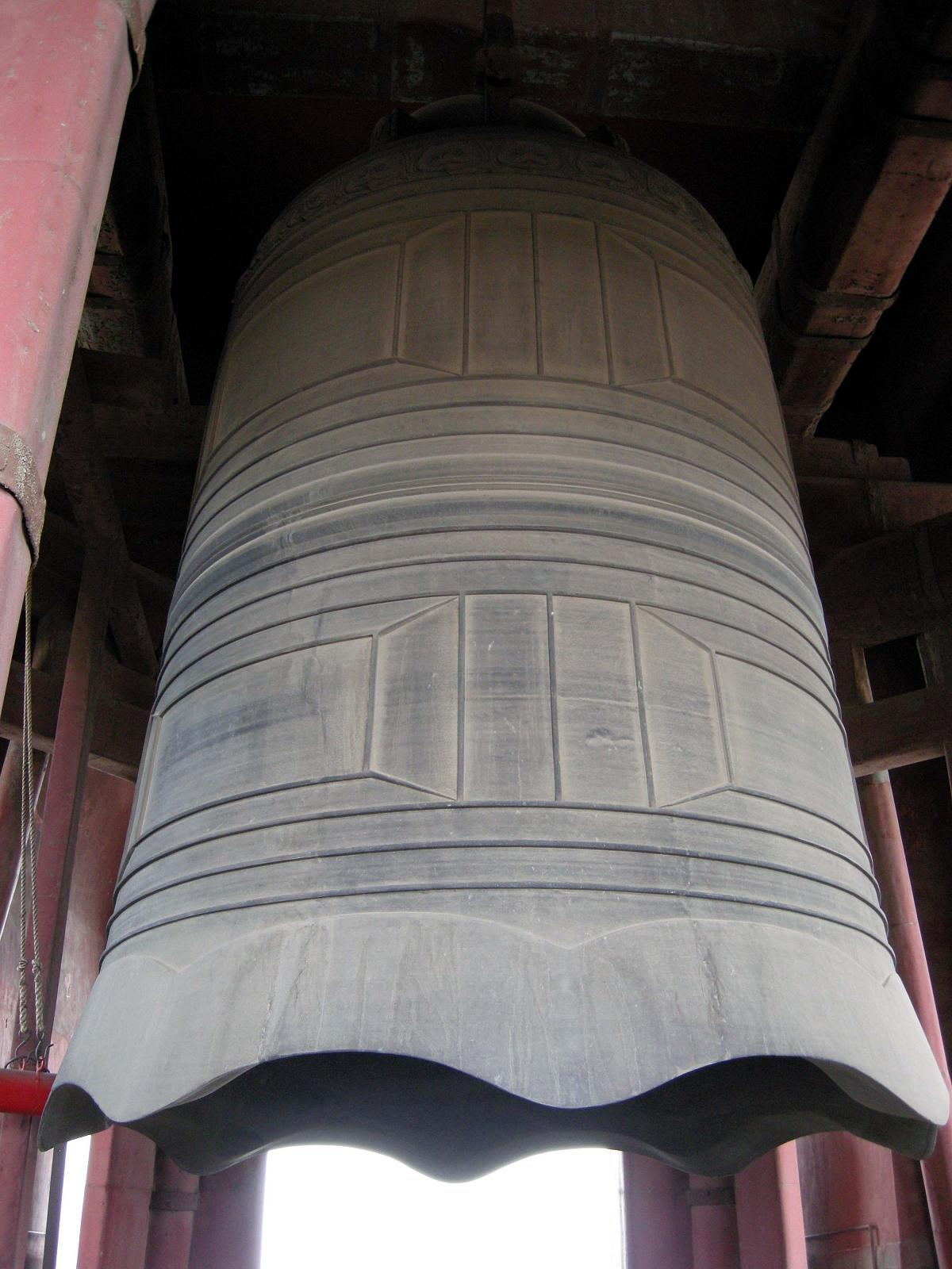 Bell Tower of Beijing